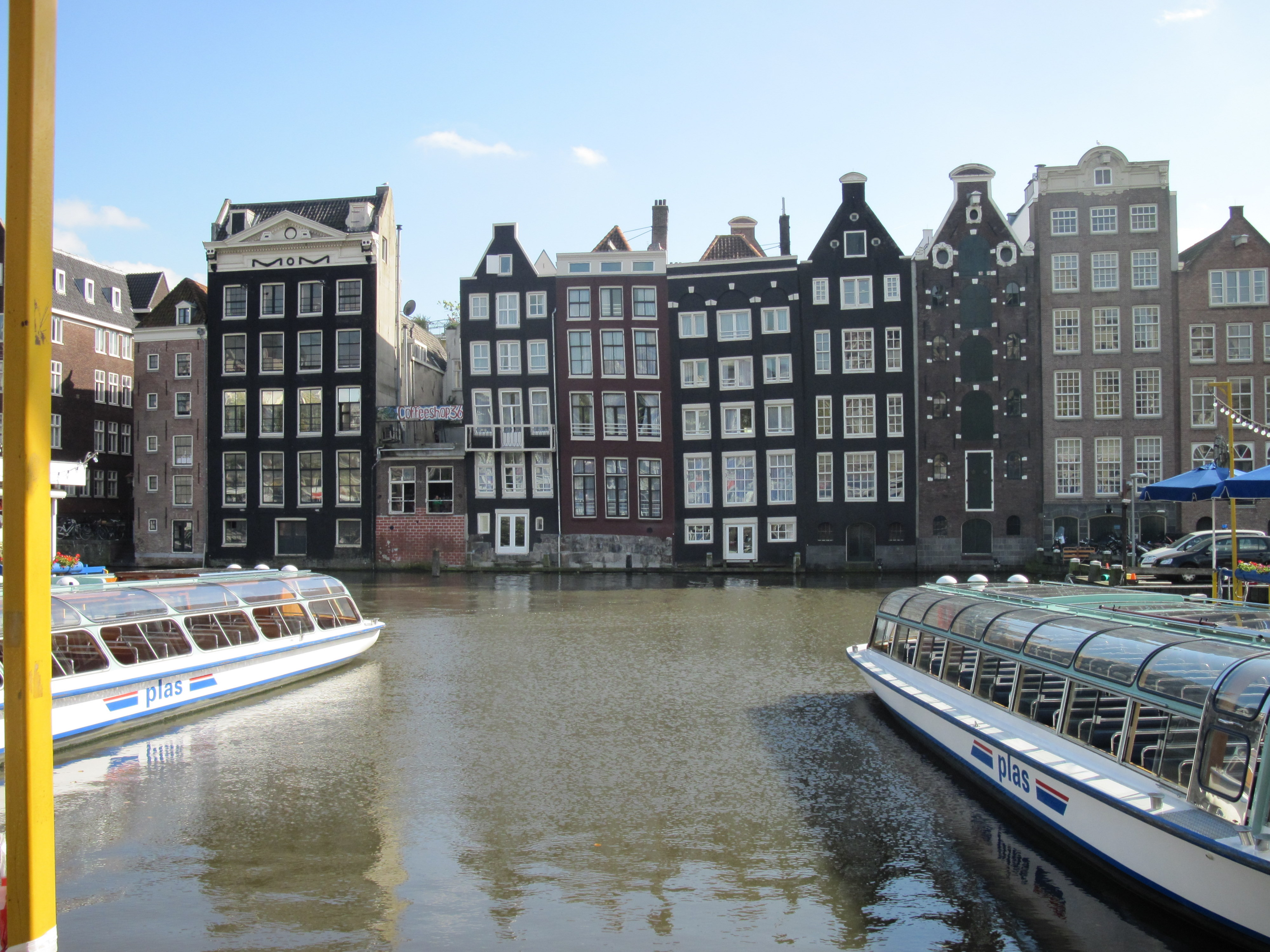 Damrak